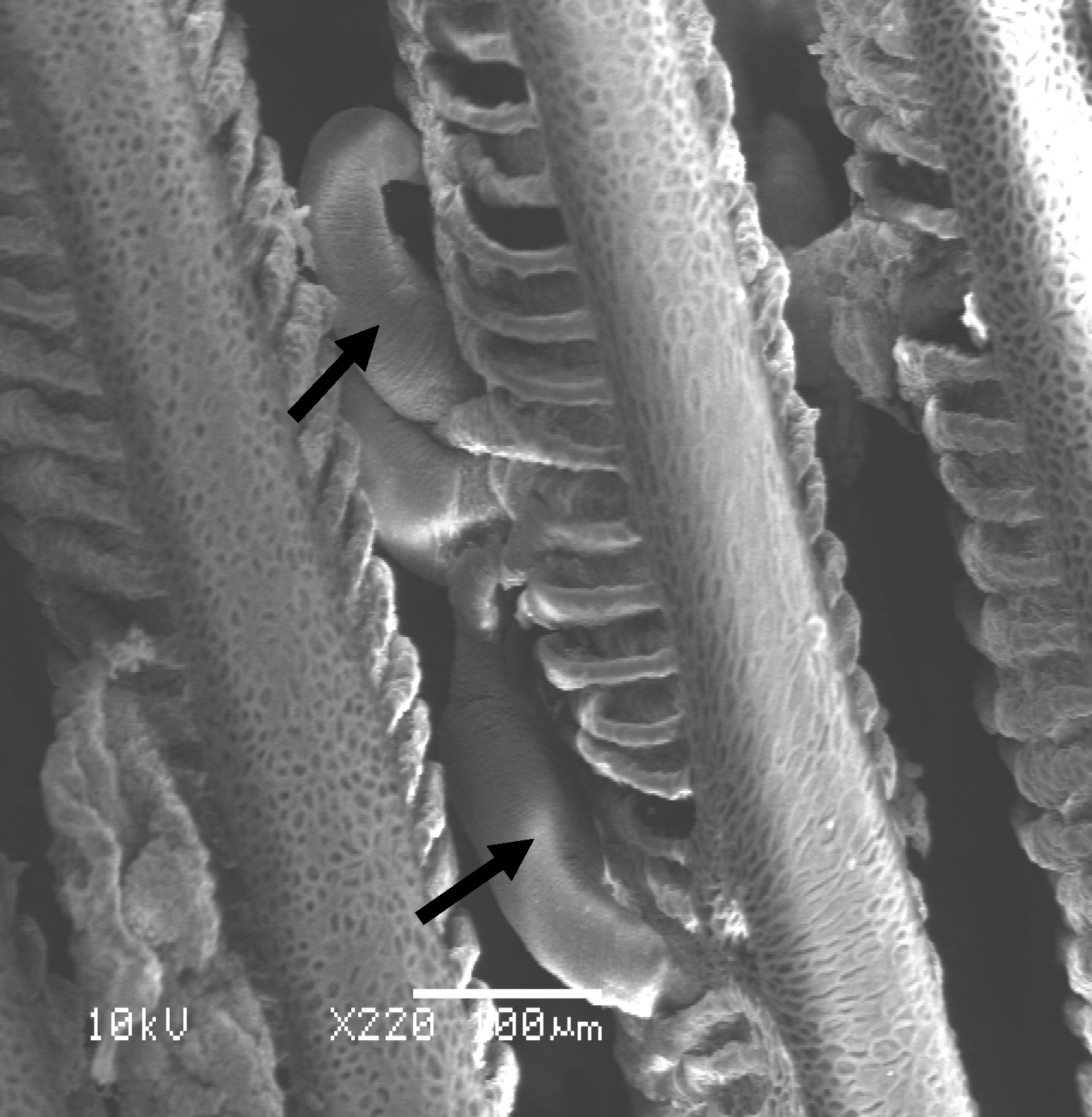 Pseudorhabdosynochus lantauensis (Monogenea, Diplectanidae) on the gills of Epinephelus coioides. Scanning electron microscope. From Figure 1b in paper: Cruz-Lacierda, E. R., Pineda, A. J. T. & Nagasawa, K. 2012: In vivo treatment of the gill monogenean Pseudorhabdosynochus lantauensis (Monogenea, Diplectanidae) on orange-spotted grouper (Epinephelus coioides) cultured in the Philippines. AACL Bioflux, 5, 330-336. Arrow: Pseudorhabdosynochus lantauensis attached between gill lamellae